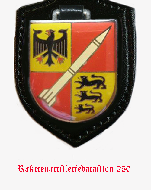 Internal coat of arms Raketenartilleriebataillon 250 (RakArtBtl 250) of the Bundeswehr (Armed Forces of the Federal Republic of Germany). → Remarks on naming and categorization scheme